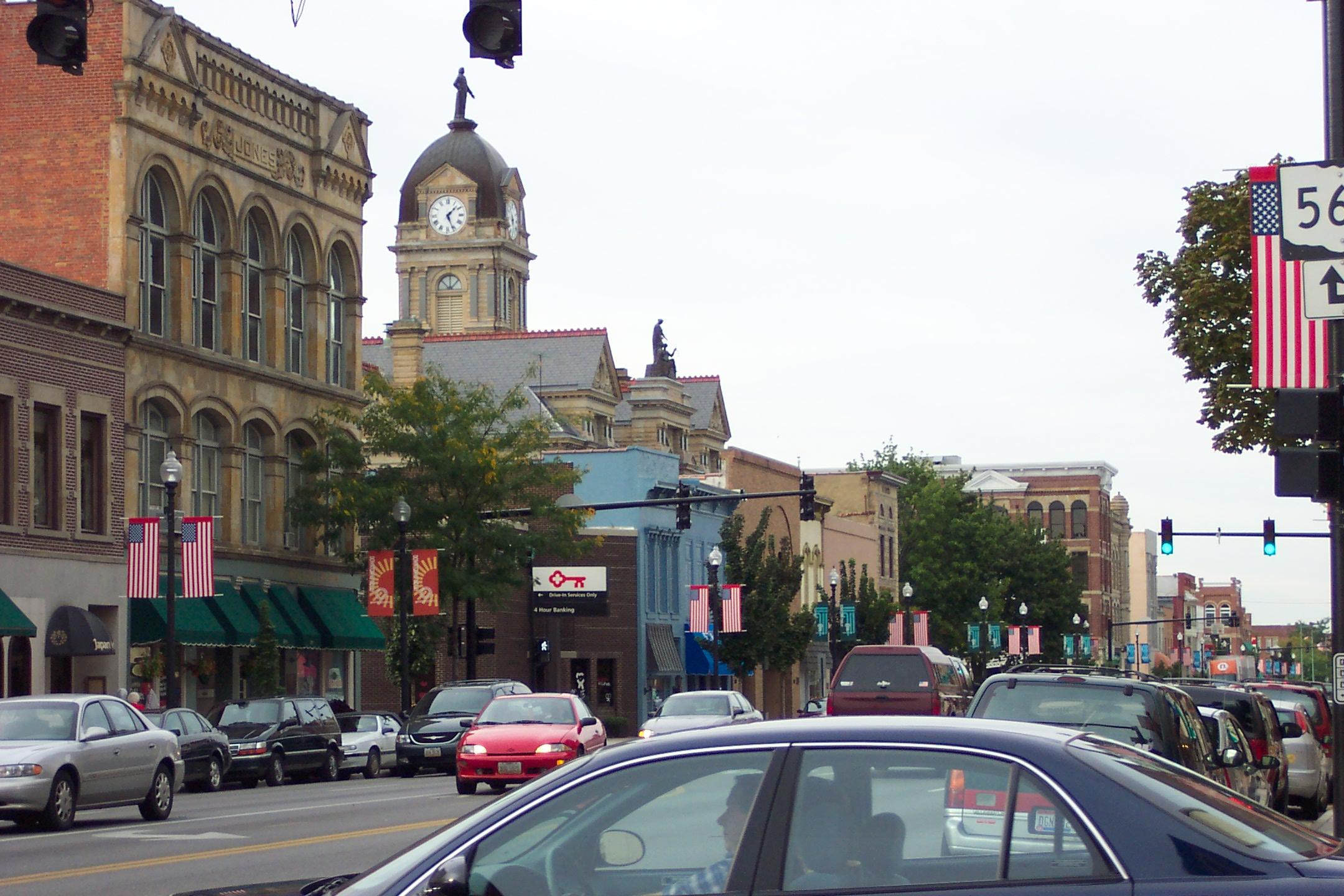 This is the a view looking north along Main Street in Downtown Findlay. In the background is the Hancock County Courthouse.